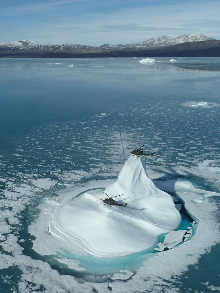 438 Sqn RCAF at Otto Fjord Nunavut